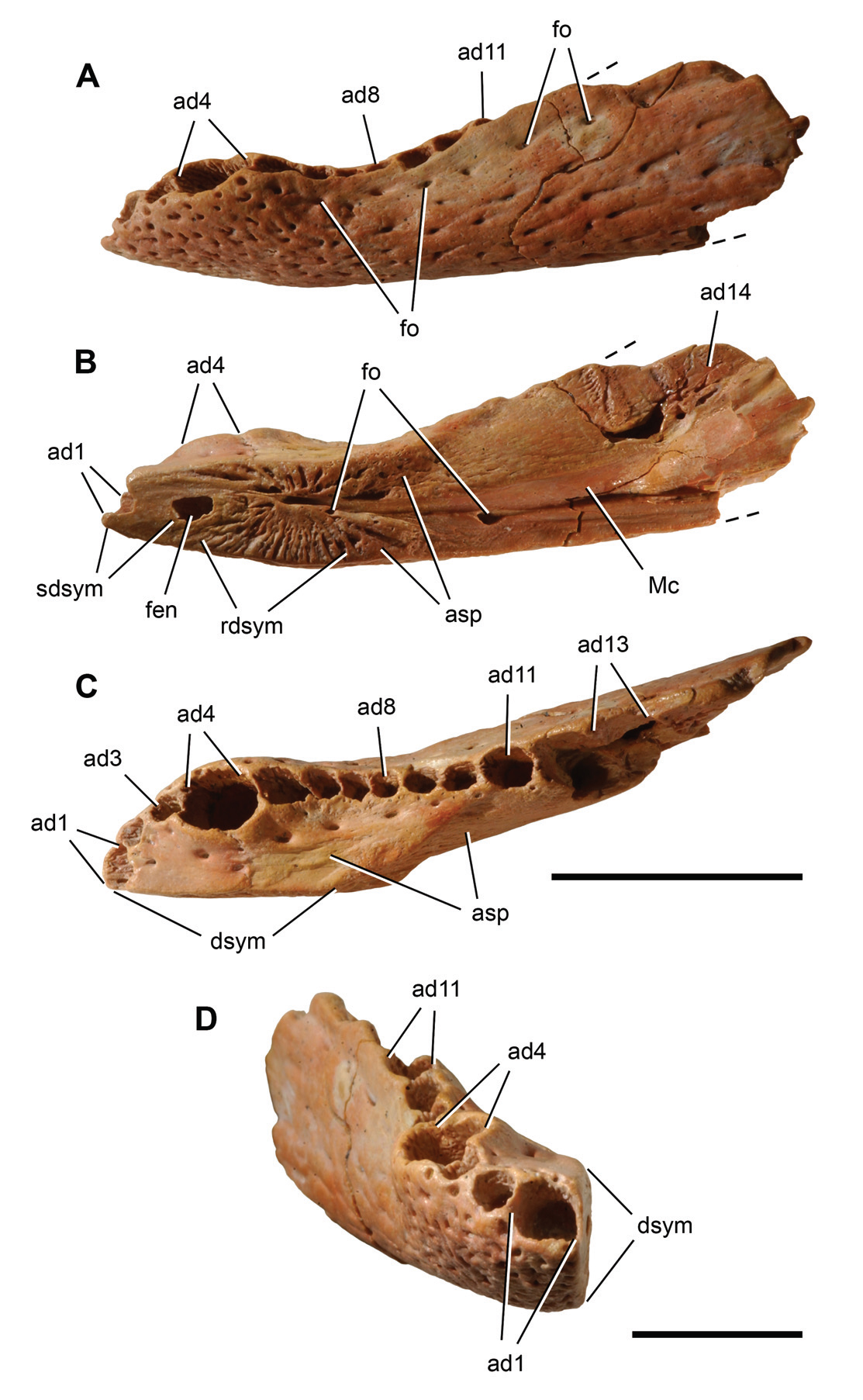 Right dentary of the crocodyliform Araripesuchus rattoides sp. n. Isolated right dentarylacking teeth (holotype CMN 41893). A Lateral view (reversed). B Medial view. C Dorsal view. D Anterior view.Scale bars equal 2 cm in A-C and 1 cm in D. Abbreviations: ad1, 3, 4, 8, 11, 13, 14, alveolus for dentarytooth 1, 3, 4, 8, 11, 13, 14; asp, articular surface for the splenial; dsym, dentary symphysis; fen, fenestra; fo,foramen; Mc, Meckel’s canal; rdsym, rough dentary symphysis; sdsym, smooth dentary symphysis.